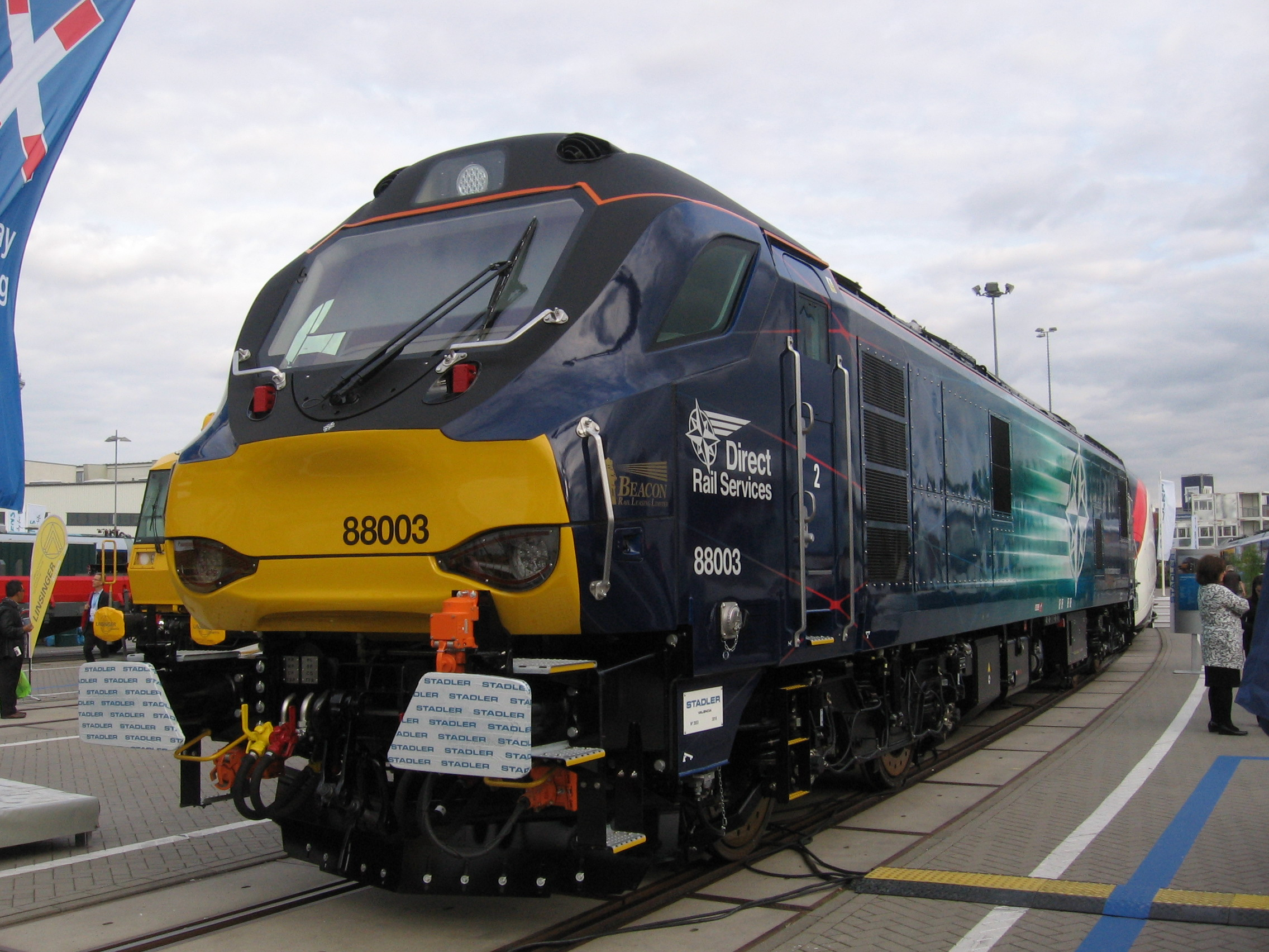 Diesel end